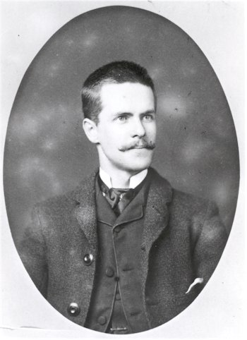 William Joseph Hammer in 1881 Paris Electrical Exposition